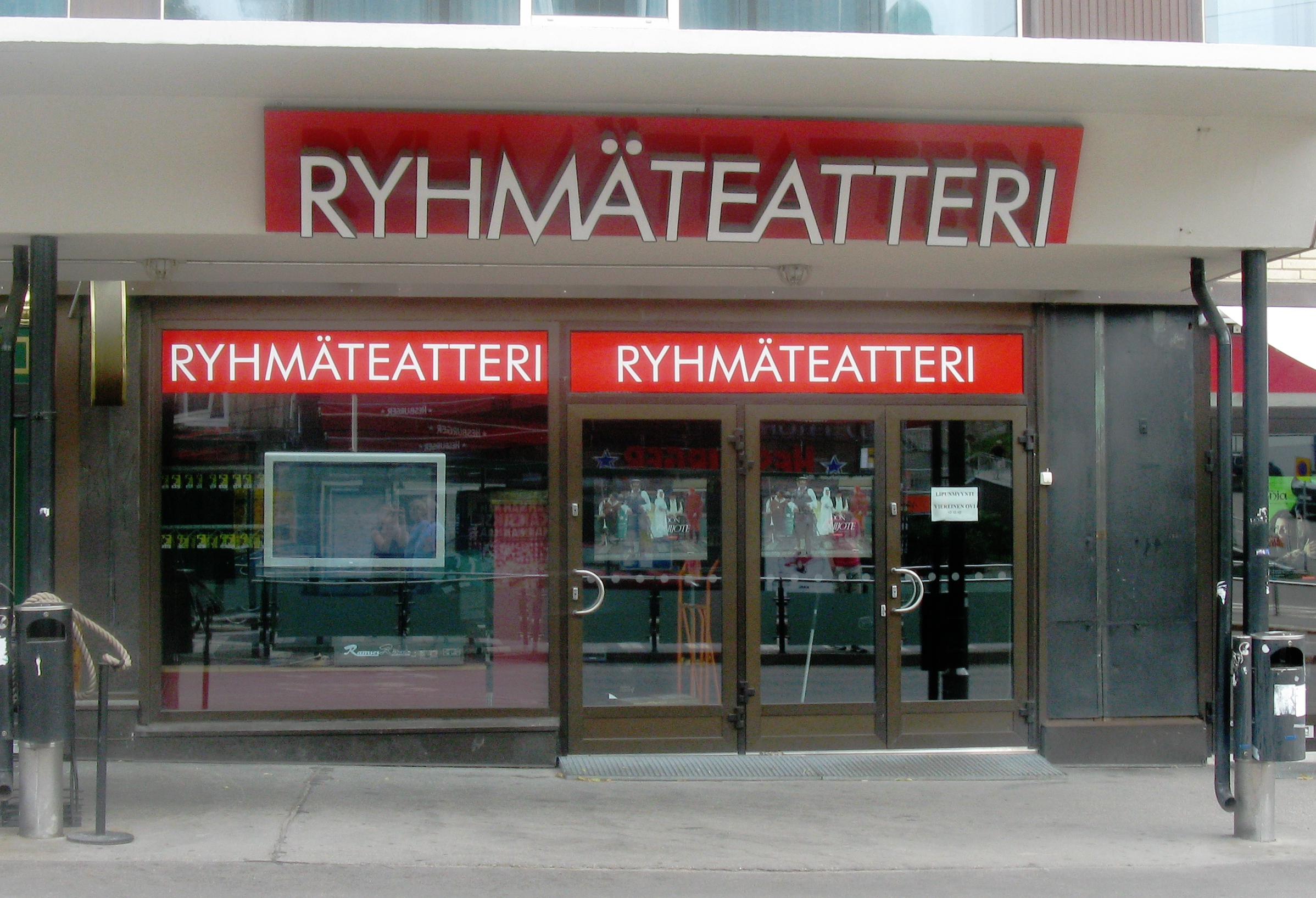 Finnish theater Ryhmäteatteri in Helsinki in Helsinginkatu.